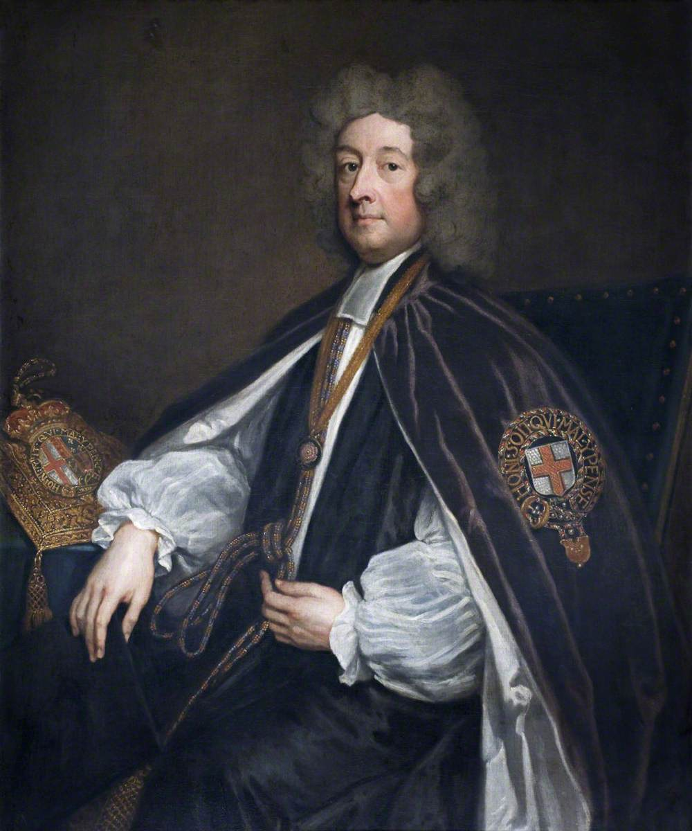 William Talbot (1658-1730), Bishop of Durham. Talbot is painted in his clerical robes holding the Garter cord and with a purse on the table, as he was Chancellor of the Order of the Garter and Bishop successively of Oxford, Salisbury and Durham.